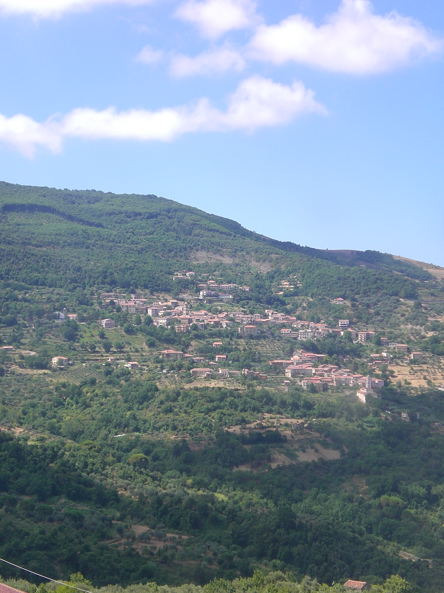 View of Perdifumo